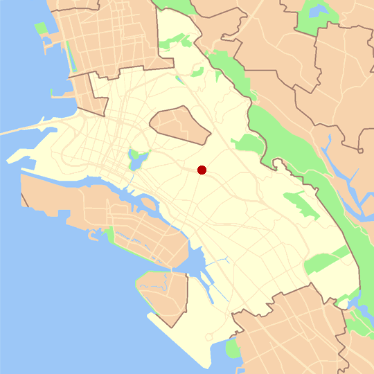 Map showing the location of the Dimond district in the city of Oakland, California. Created by User:Nogood using U.S. Census Bureau data.